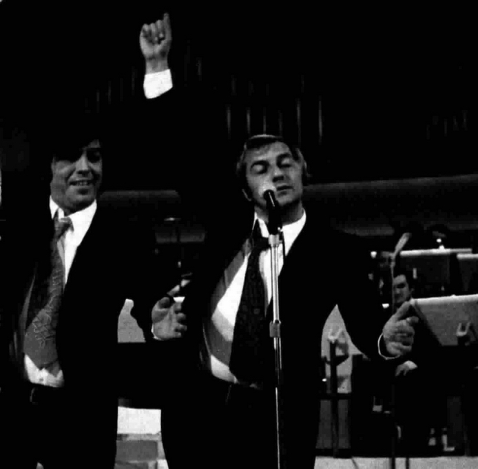 Comedians Ric e Gian, guests of the Italian show Senza rete, Naples, 1972